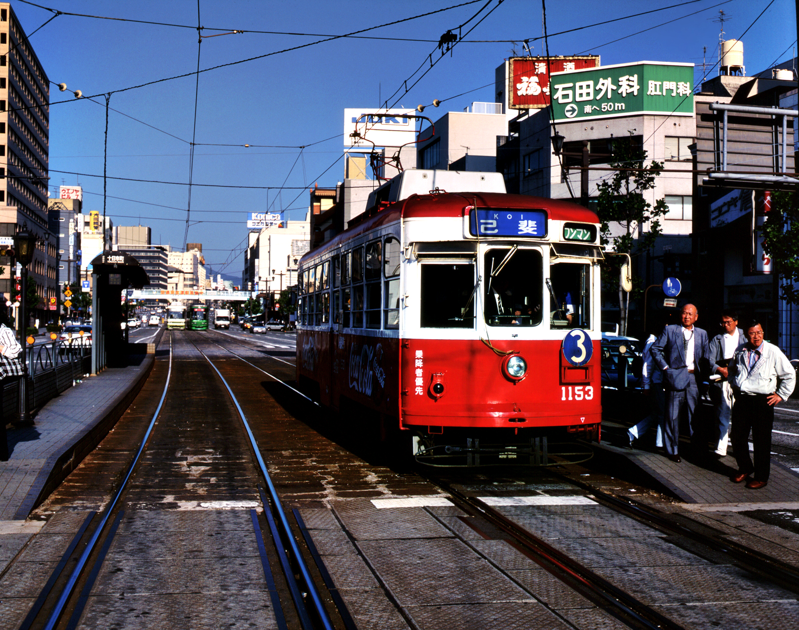 Streetcar/Tram in Hiroshima